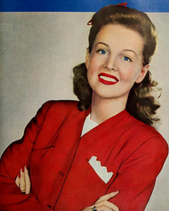 Photo of singer-actress Betty Jane Rhodes.